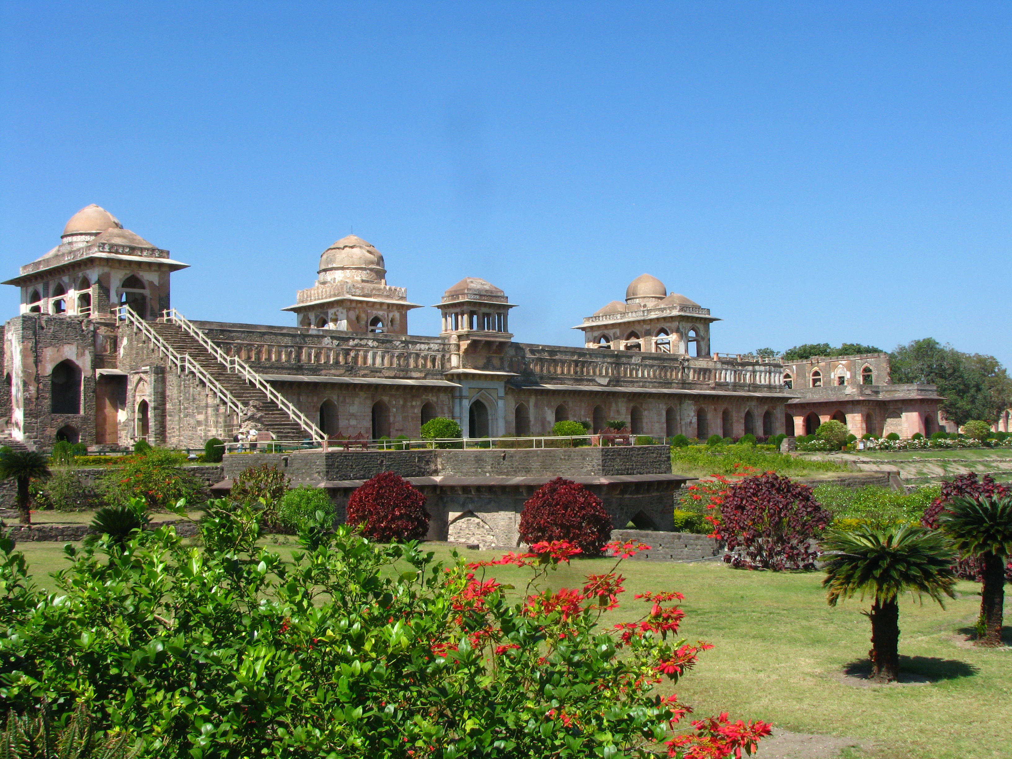 Jahaz Mahal